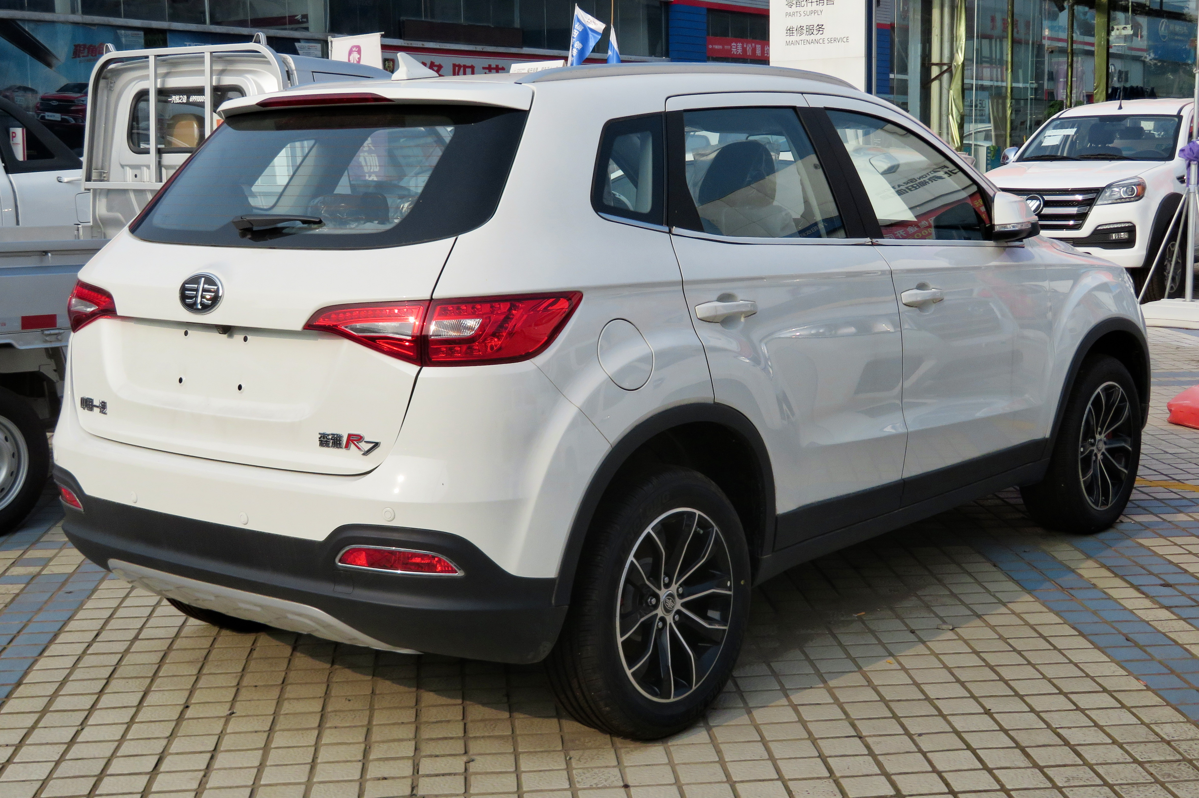 A 2017 FAW-Jilin Senia R7 photographed at Guanlinzhen, in Luoyang, Henan province, China